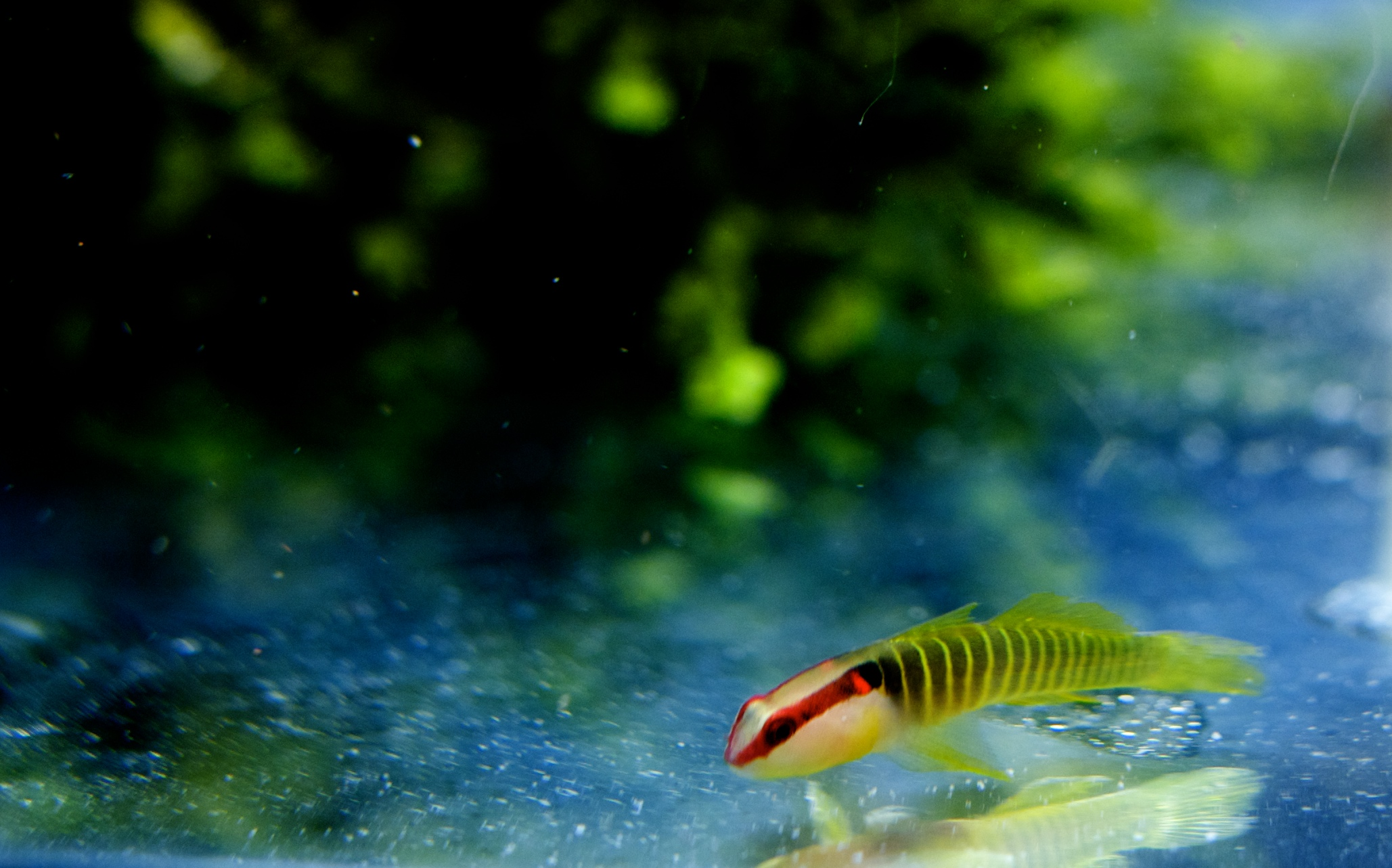 Green Banded Goby in an aquarium.